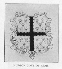 Hudson coat of arms from Lenox Collection, New York City: argent, semée of fleurs-de-lis gules, a cross engrailed sable